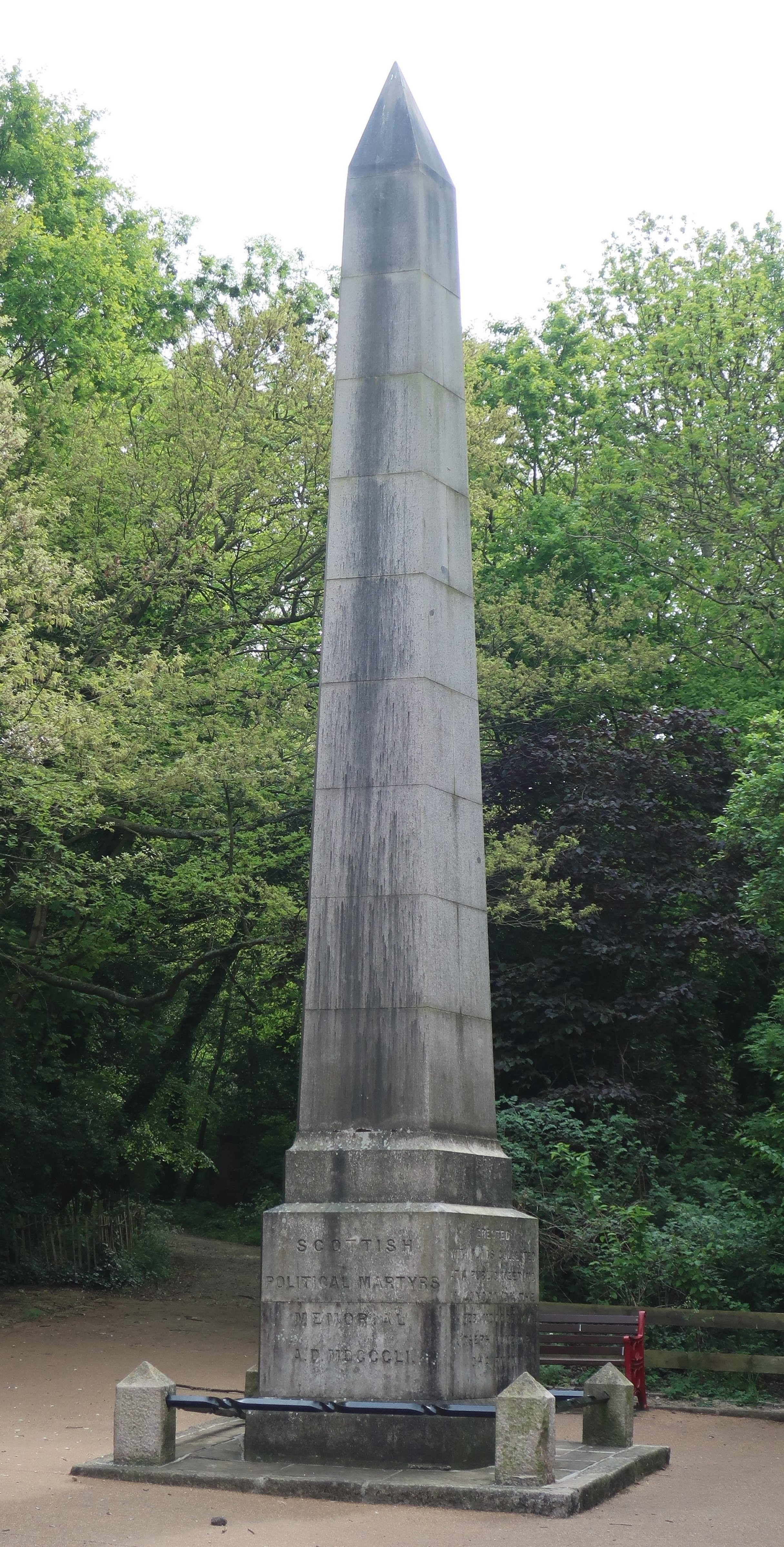 The Scottish Martyrs Memorial, Nunhead Cemetery, London SE15 Wikidata has entry Q26665429 with data related to this item.